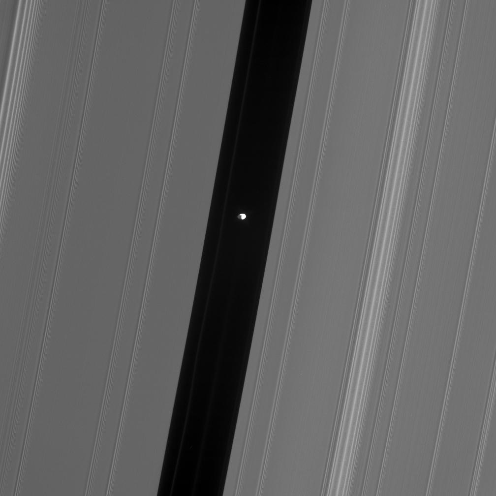 This Cassini spacecraft view of Pan in the Encke gap shows hints of detail on the moon's dark side, which is lit by saturnshine -- sunlight reflected off Saturn.